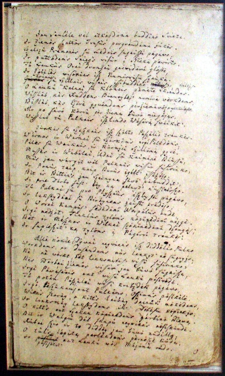 Chistye Prudy in Kaliningrad oblast. Museum of Kristijonas Donelaitis, Metai (The seasons)